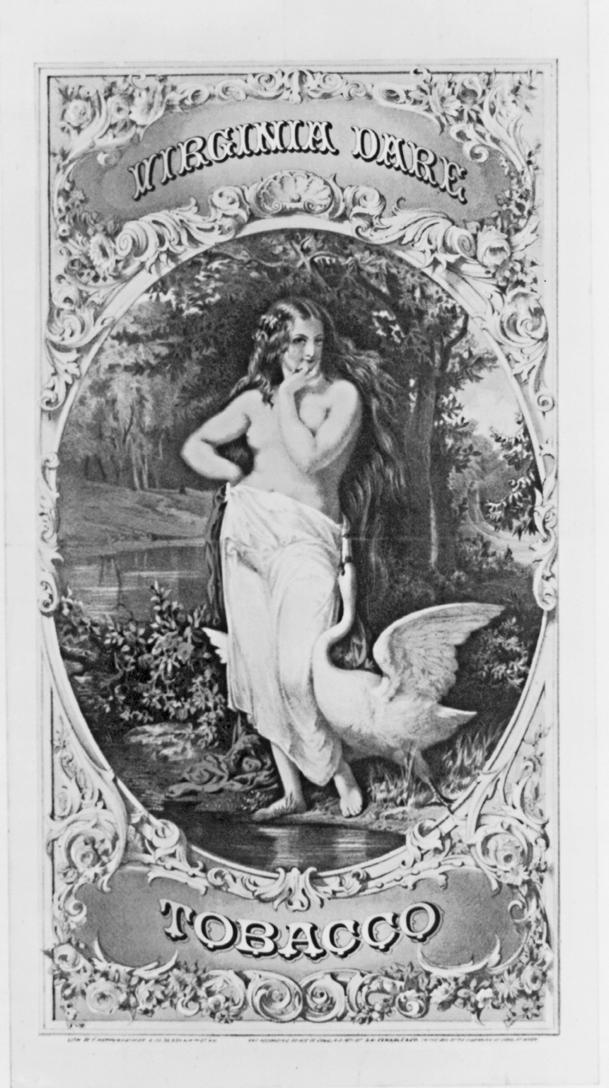 Photograph of label for "Virginia Dare Tobacco," copyrighted 1871. Courtesy of the Library of Congress Digital Collection.